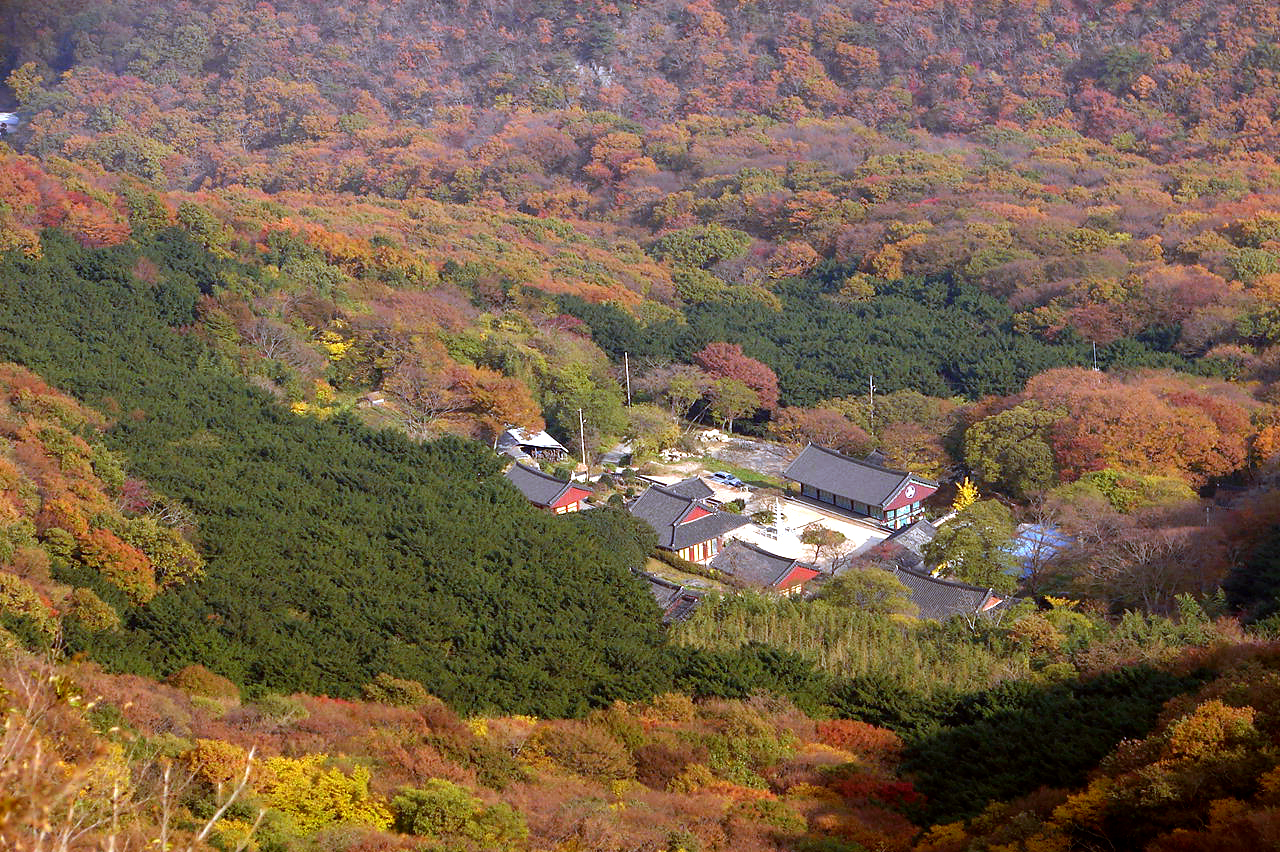 Geumtapsa at the foot of Cheondeungsan surrounded by the forest of Japnese Nutmeg trees which is Natural Monument 239. Cheondeungsan is a mountain in Goheung county with a height of 555 meters (1821 feet).